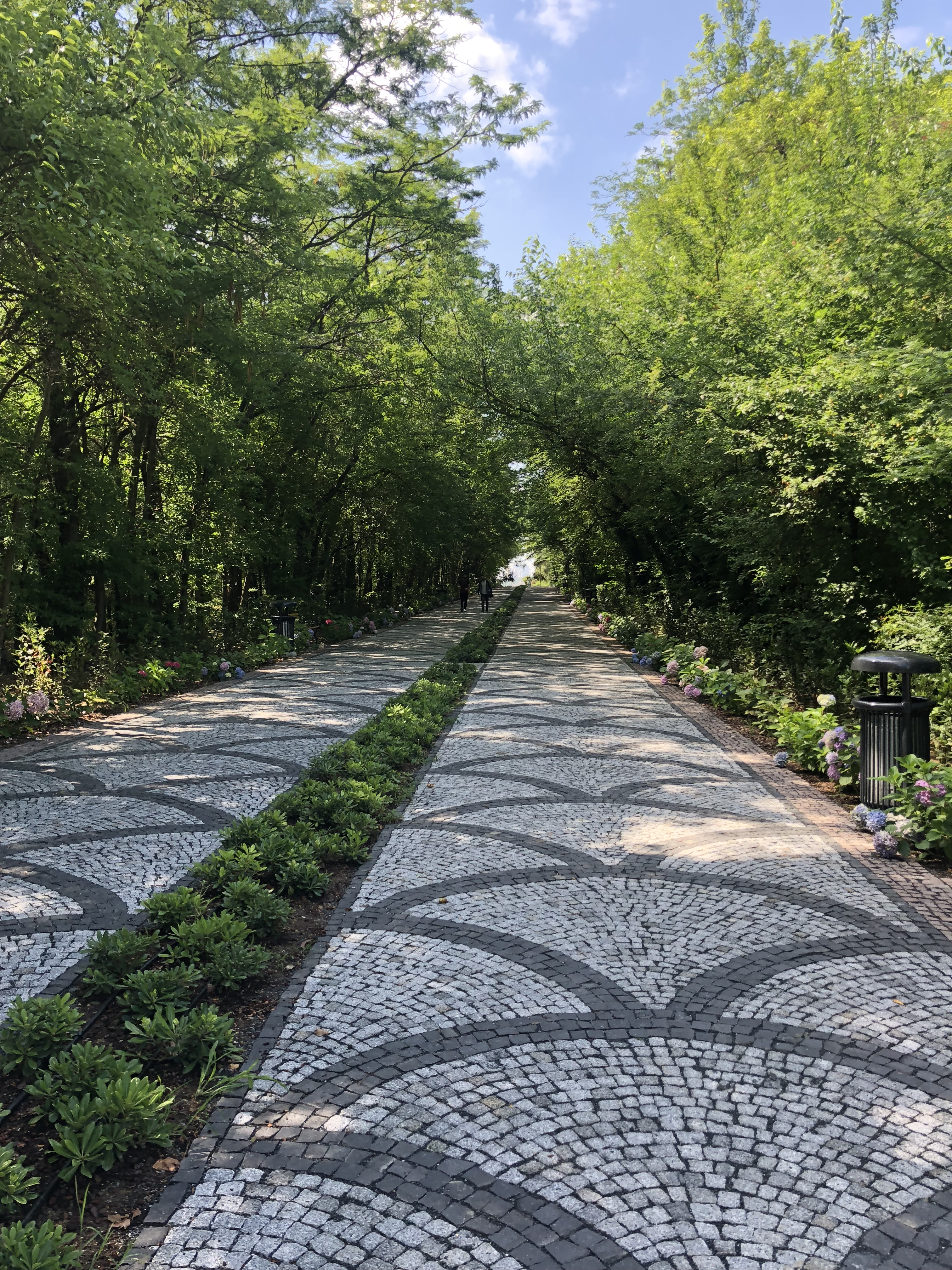 Istanbul Technical University walkway with trees